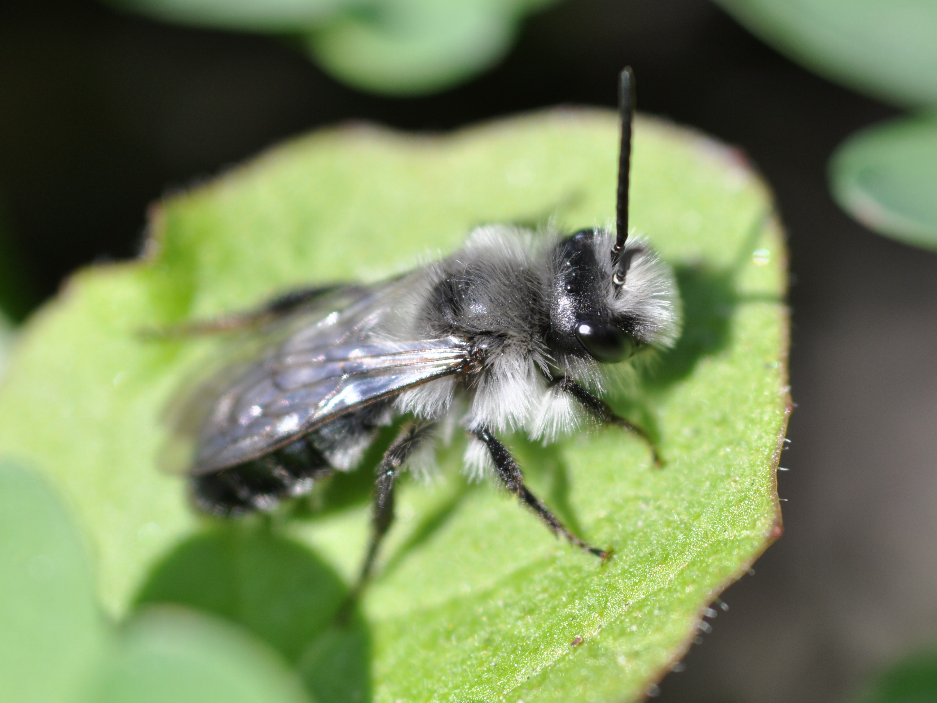 Grey Mining Bee Andrena cineraria male in Altona, Hamburg.